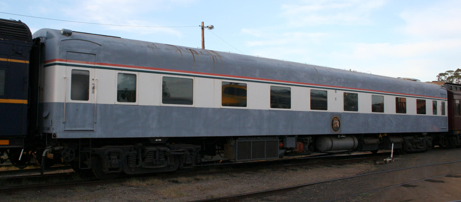 State Car 5, as used on Victorian Railways Royal Trains, in the V/Line 'executive' livery. In the custody of the Seymour Railway Heritage Centre.